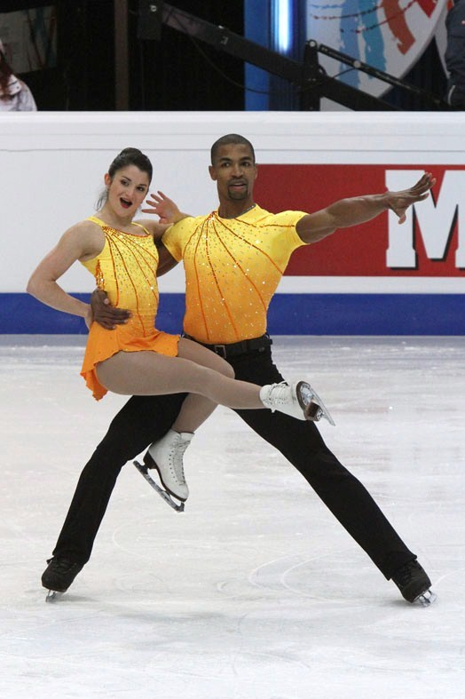 Adeline Canac / Yannick Bonheur at the 2011 European Figure Skating Championships.